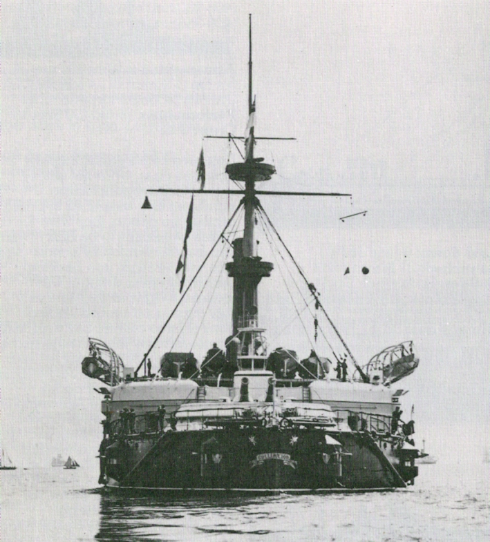 The British battleship HMS Collingwood (1882) from astern in the early 1900s.